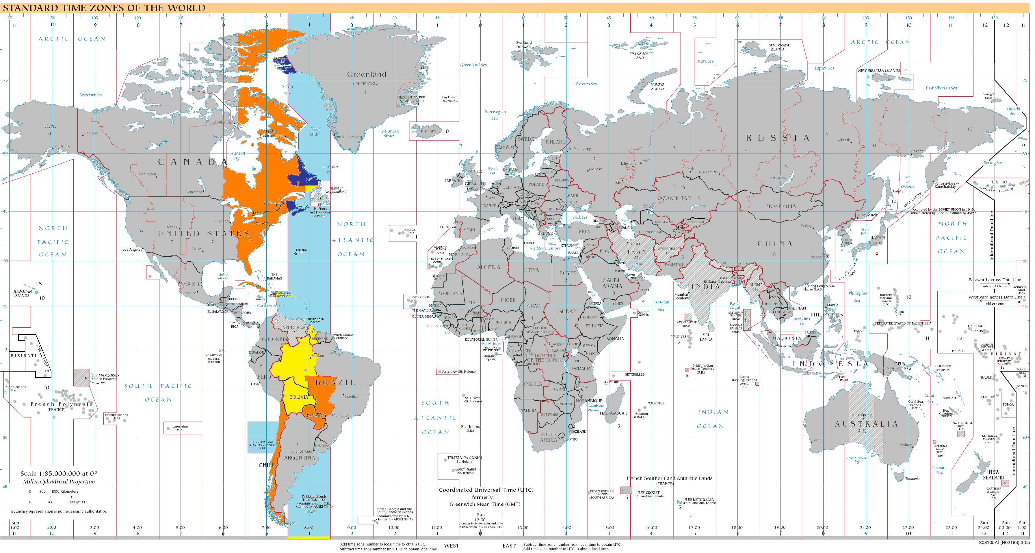 World map of time zones as of 2008, on the Miller Cylindrical Projection and with highlighted UTC-4 zone. Dark Blue - UTC-4 during Northern Winter / Southern Summer Orange - UTC-4 during Northern Summer / Southern Winter Yellow - UTC-4 all year round Light Blue - UTC-4 sea areas